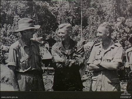 . Major General G. A. Vasey CB, OBE, DSO, Commanding 7th Australian Division (left), chatting to Colonel J. A. Doe, 163rd United States Regiment (centre), and Australian Regimental Commanders at a unit headquarters in the forward area during the advance to Sanananda.